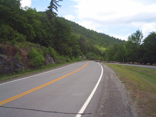 The Prospect Mountain Veterans Memorial Parkway in Lake George, New York at one of the parking lots for its scenic overlooks.